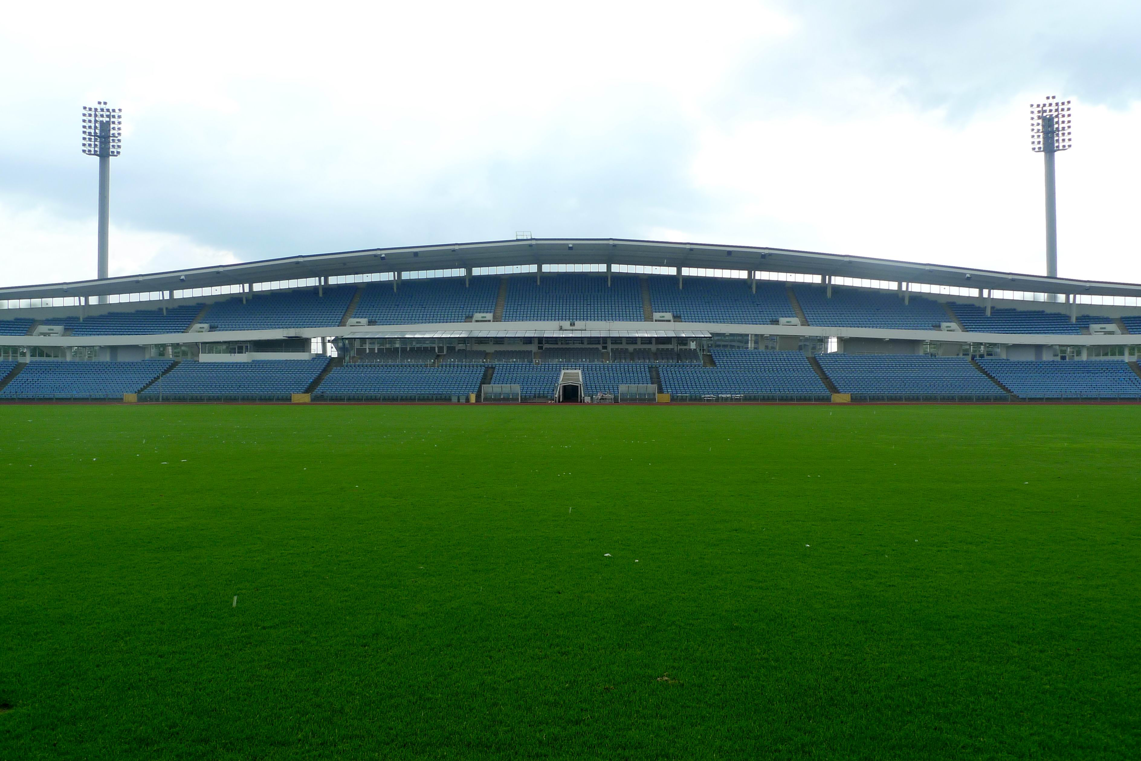 The Southern Stand of Malmö Stadion